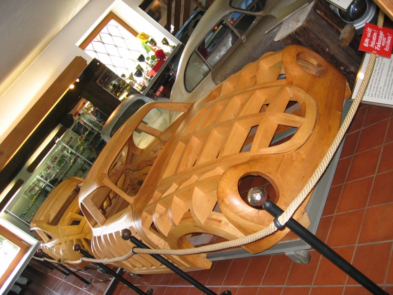 Picture of a 356 wood shell used to shape out metal body work. This picture was taken at the Porsche museum in Gmünd, Austria, Summer 2006. I took this photo.